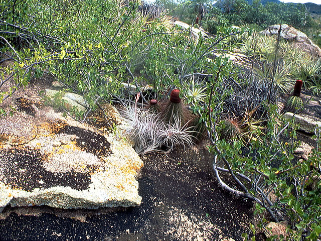 Tillandsia milagrensis in habitat in Brazil, Est. Bahia.